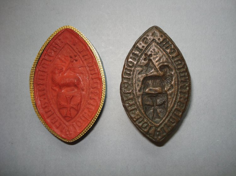 Bronze seal of the Knights Hospitallers of St John of Jerusalem, shield bearing the Maltese cross, discovered at Mâcon, France. 5.25 cm x 3.2 cm. Courtesy of the British Museum, London.